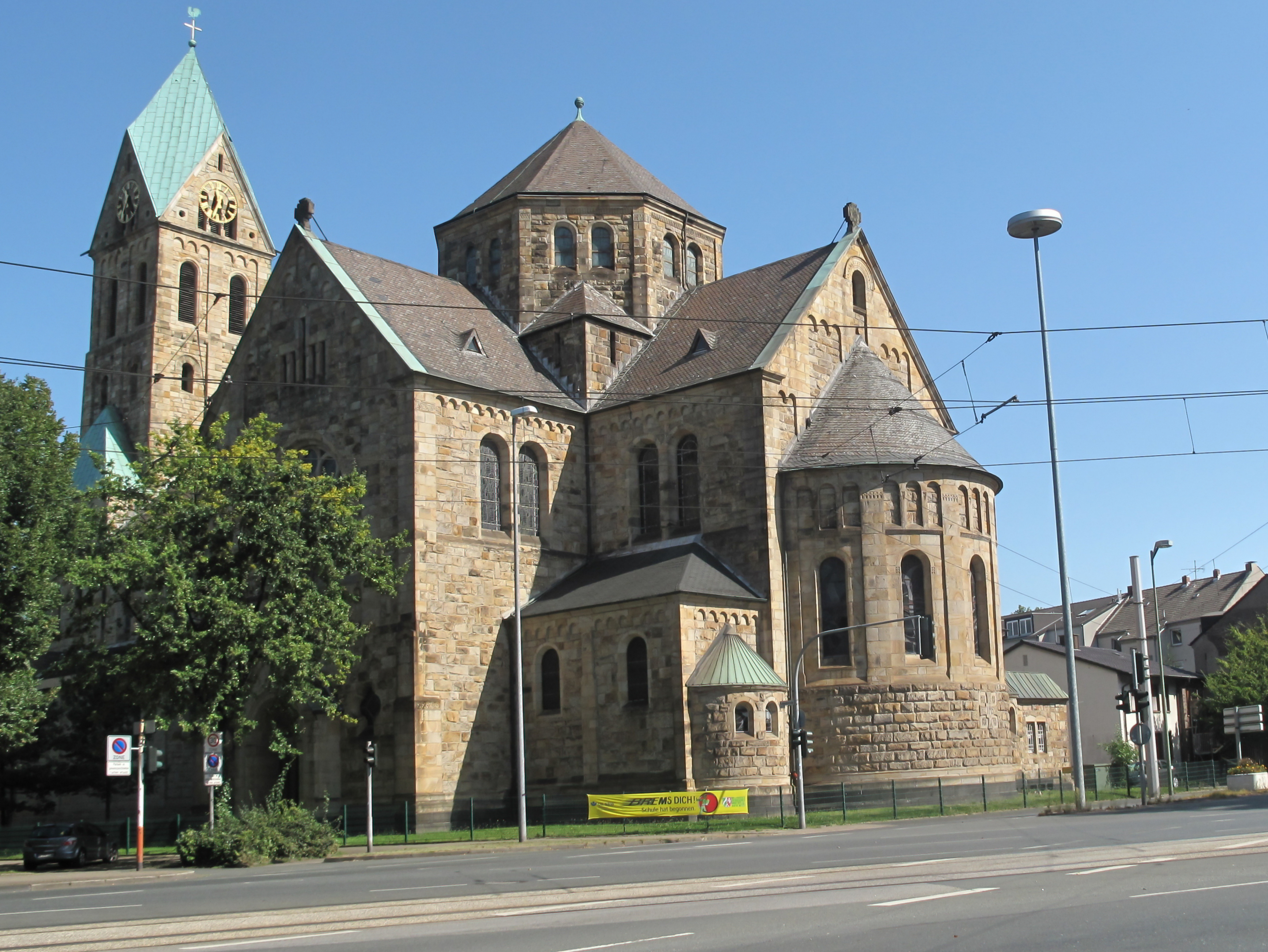 Schalke, church (Sankt Georgskirche) in the street